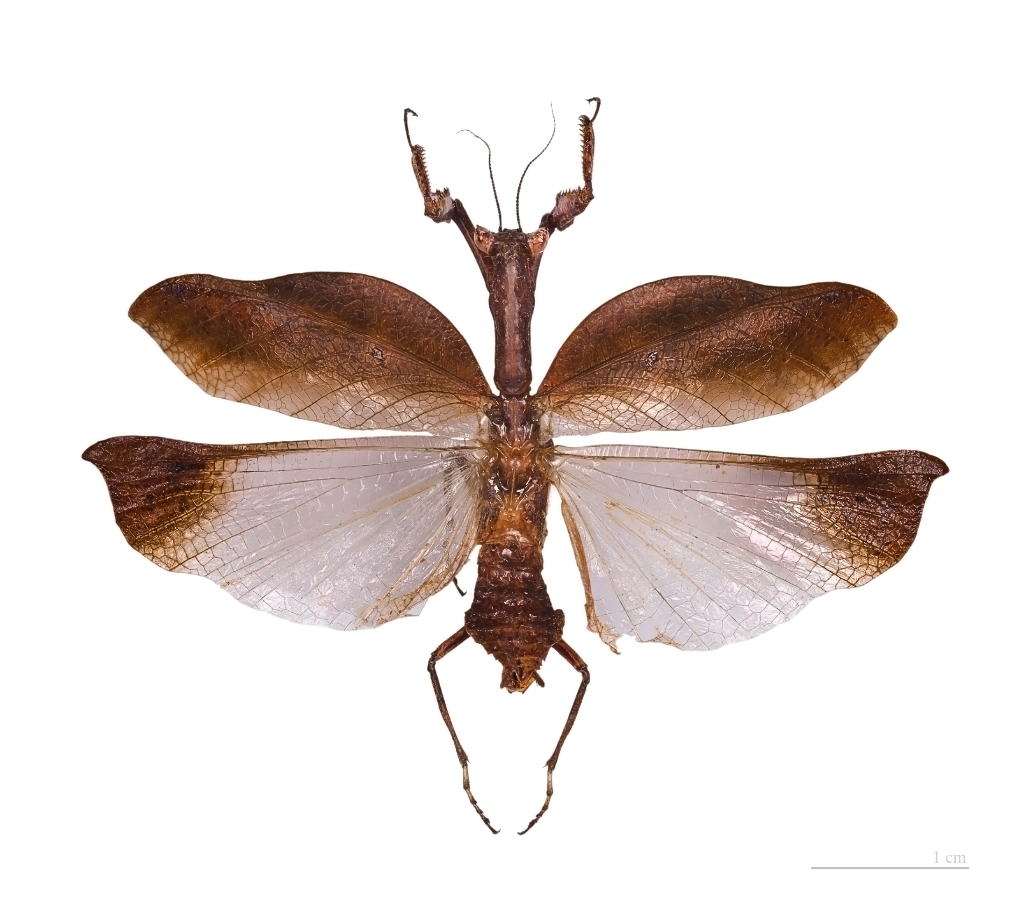 ♂ Flying position Locality : Montsinéry, Risquetout track, crossing with Leodate jump, French Guiana.